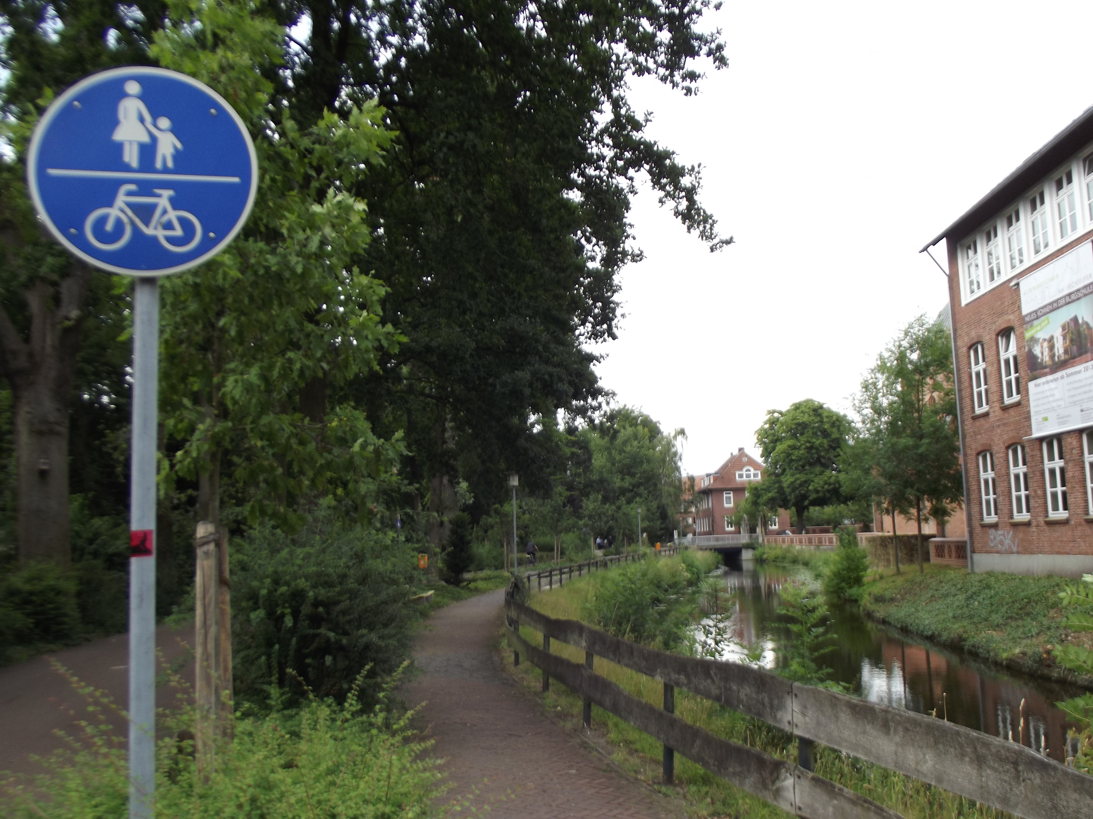 This properly signposted bikepath follows a river and leads to a church in Nordhorn.